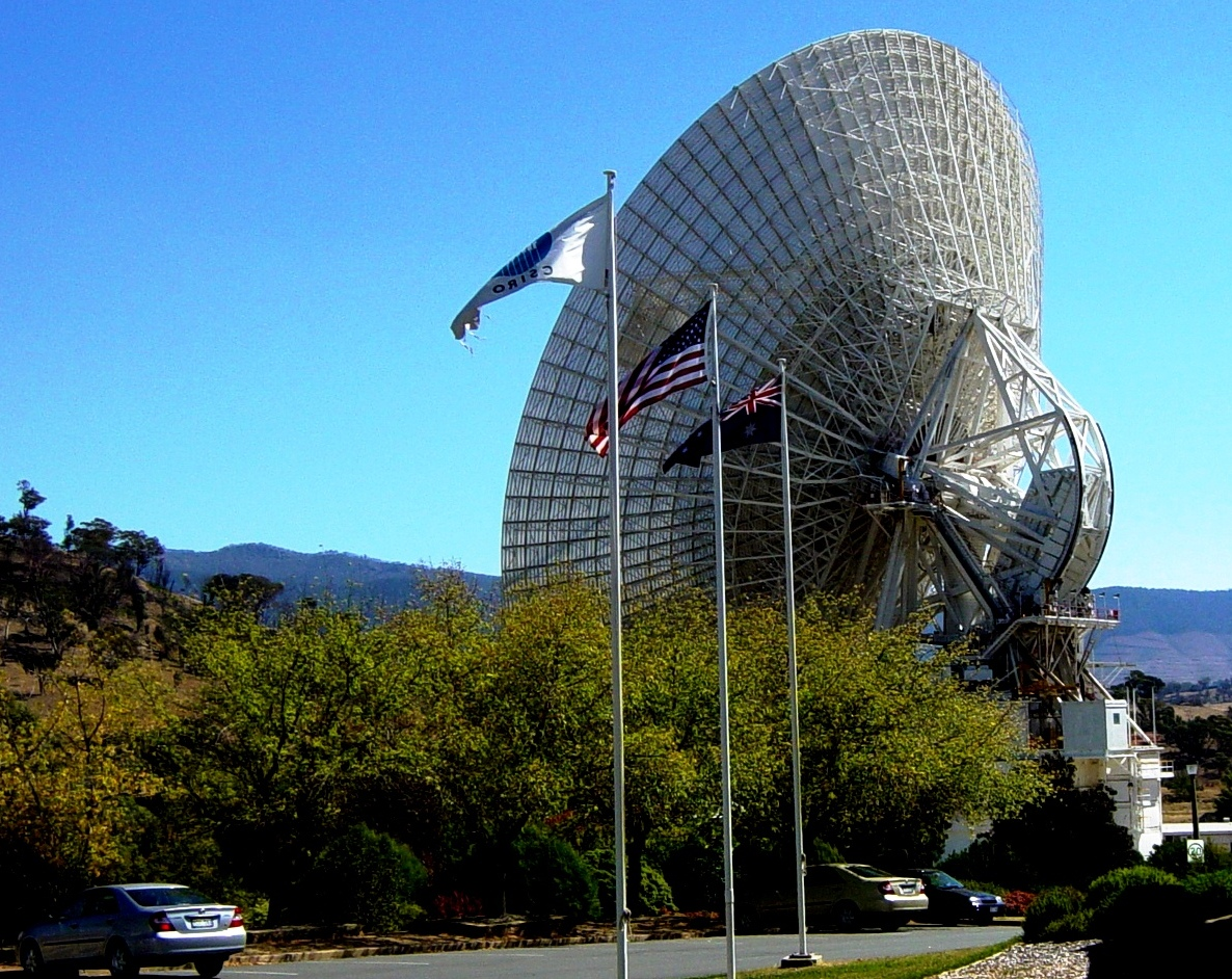 Rear view of 70 metre antenna (DSS43) at NASA's Deep Space Communications Complex located at Tidbinbilla, ACT, Australia